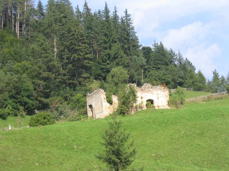 Ruins of the reformated church in Vama Buzăului, Transylvania